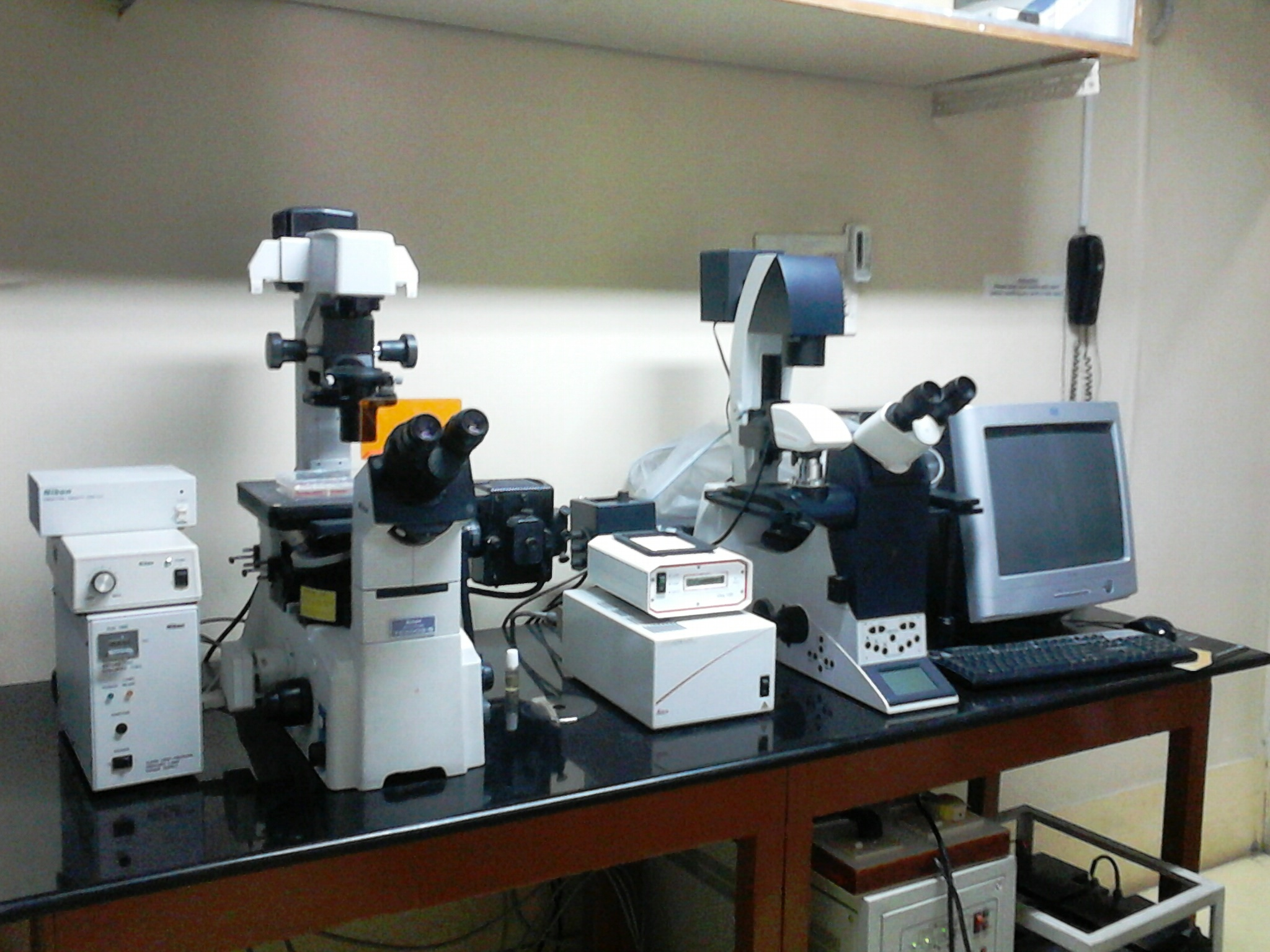 Microscopy